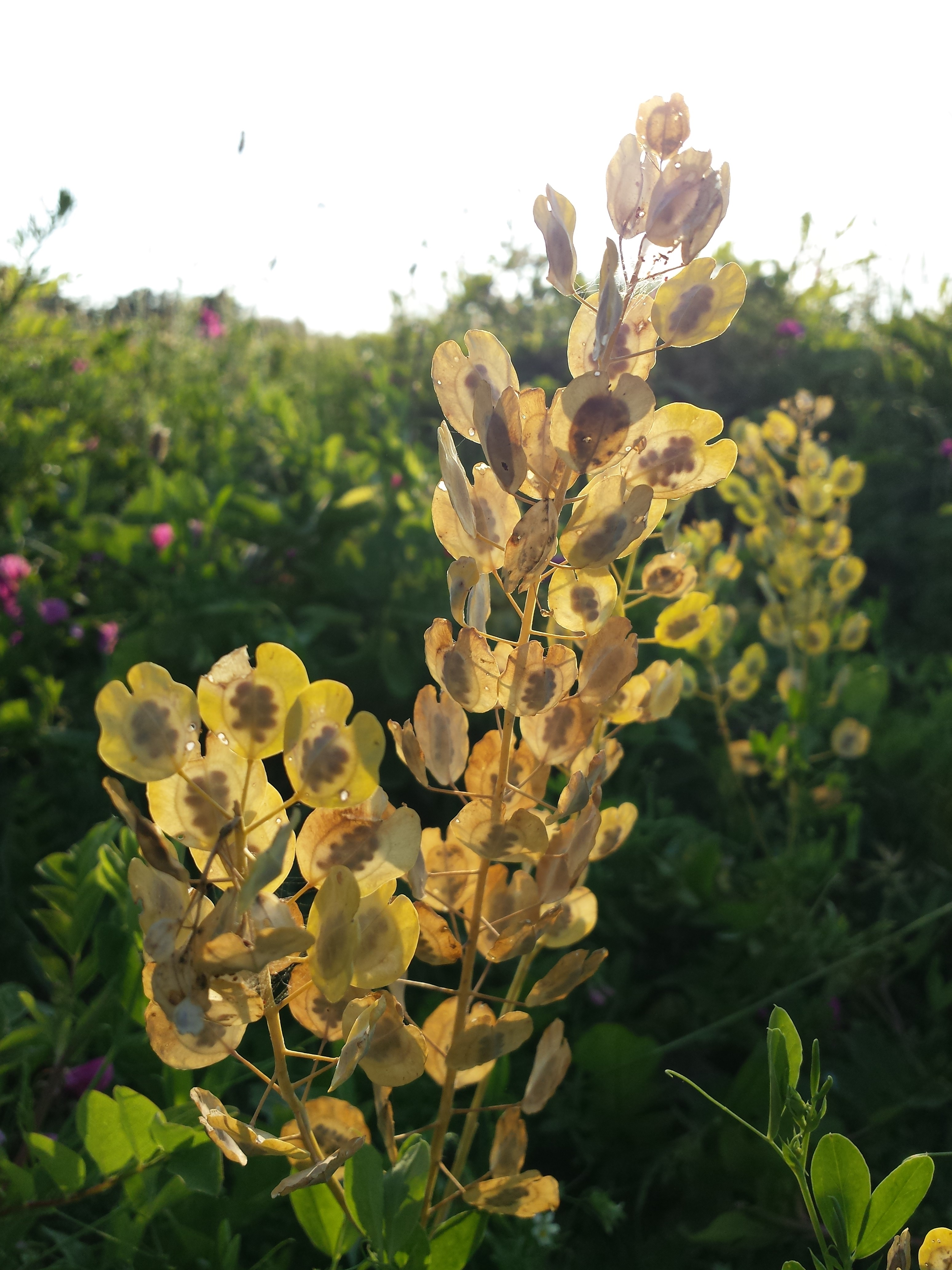 Fruits with seeds Taxon: Thlaspi arvense (sensu Fischer et al. EfÖLS 2008) Location: near Niederhollabrunn, district Korneuburg, Lower Austria - ca. 320 m a.s.l. Habitat: border of an acre